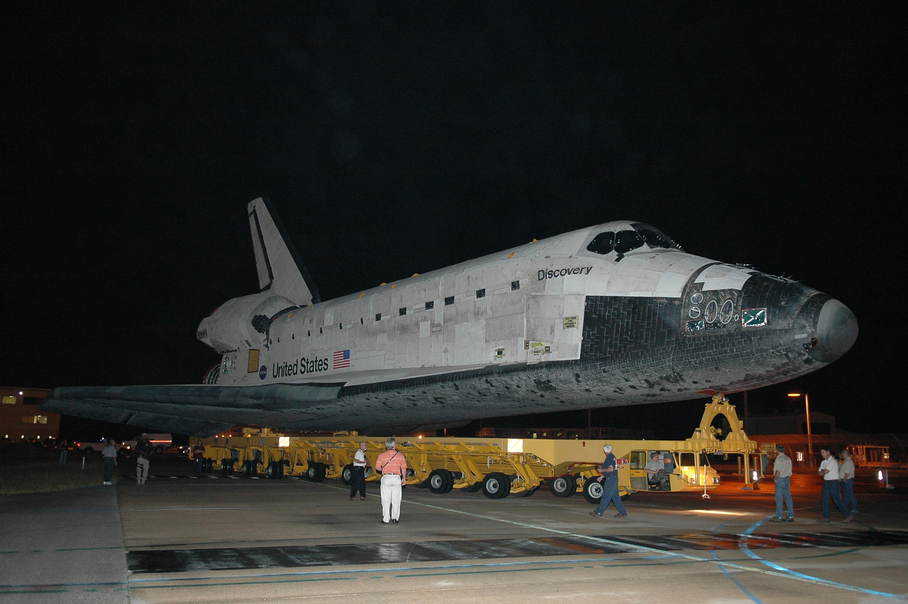 KENNEDY SPACE CENTER, FLA. -- The orbiter Discovery backs out of the Orbiter Processing Facility bay 3 for the short rollover to the Vehicle Assembly Building. First motion was at 9:23 p.m. Oct. 31. In the VAB the orbiter will be mated to its large external tank and twin solid rocket boosters already stacked on the mobile launcher platform. Space Shuttle Discovery is scheduled to roll out to Launch Pad 39B no earlier than Nov. 7 for mission STS-116. The mission is No. 20 to the International Space Station and construction flight 12A.1. The mission payload is the SPACEHAB module, the P5 integrated truss structure and other key components. The launch window for mission STS-116 opens Dec. 7.